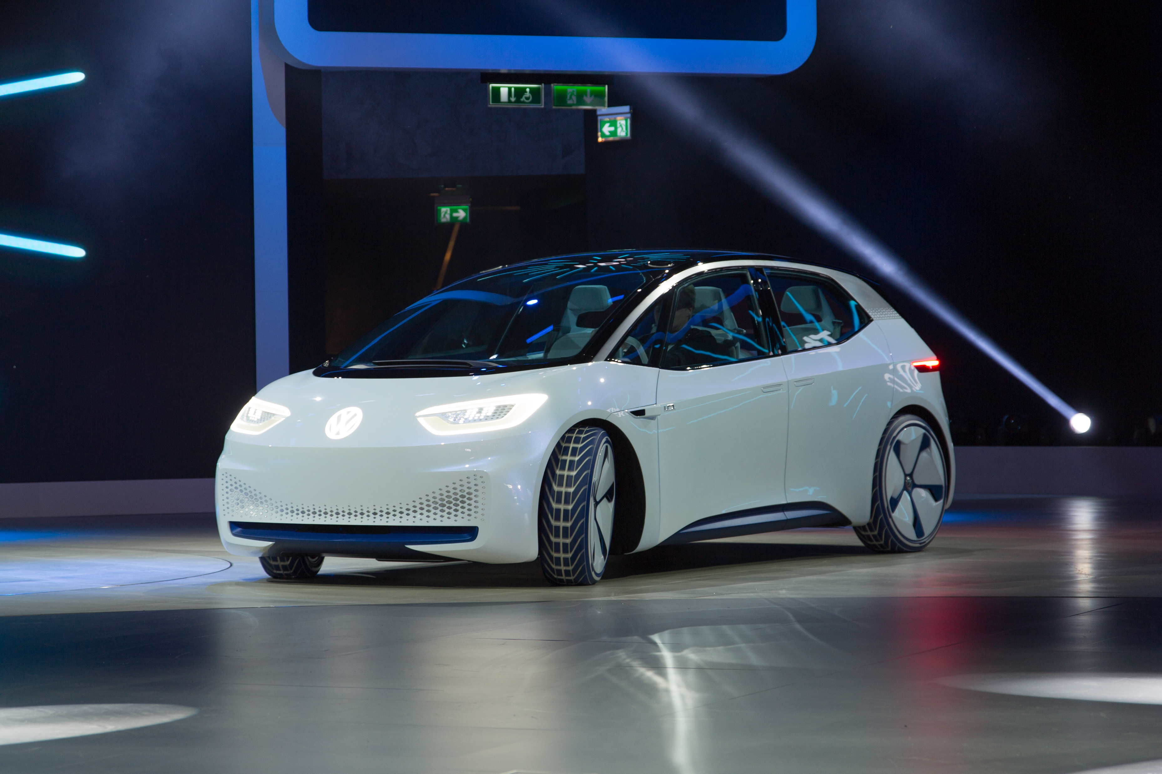 Volkswagen I.D. Concept at IAA 2017